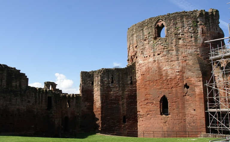 Bothwell Castle, South Lanarkshire, Scotland - donjon